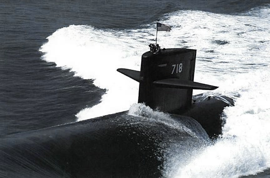 United States Navy submarine USS Honolulu (SSN-718), probably during sea trials off the United States East Coast